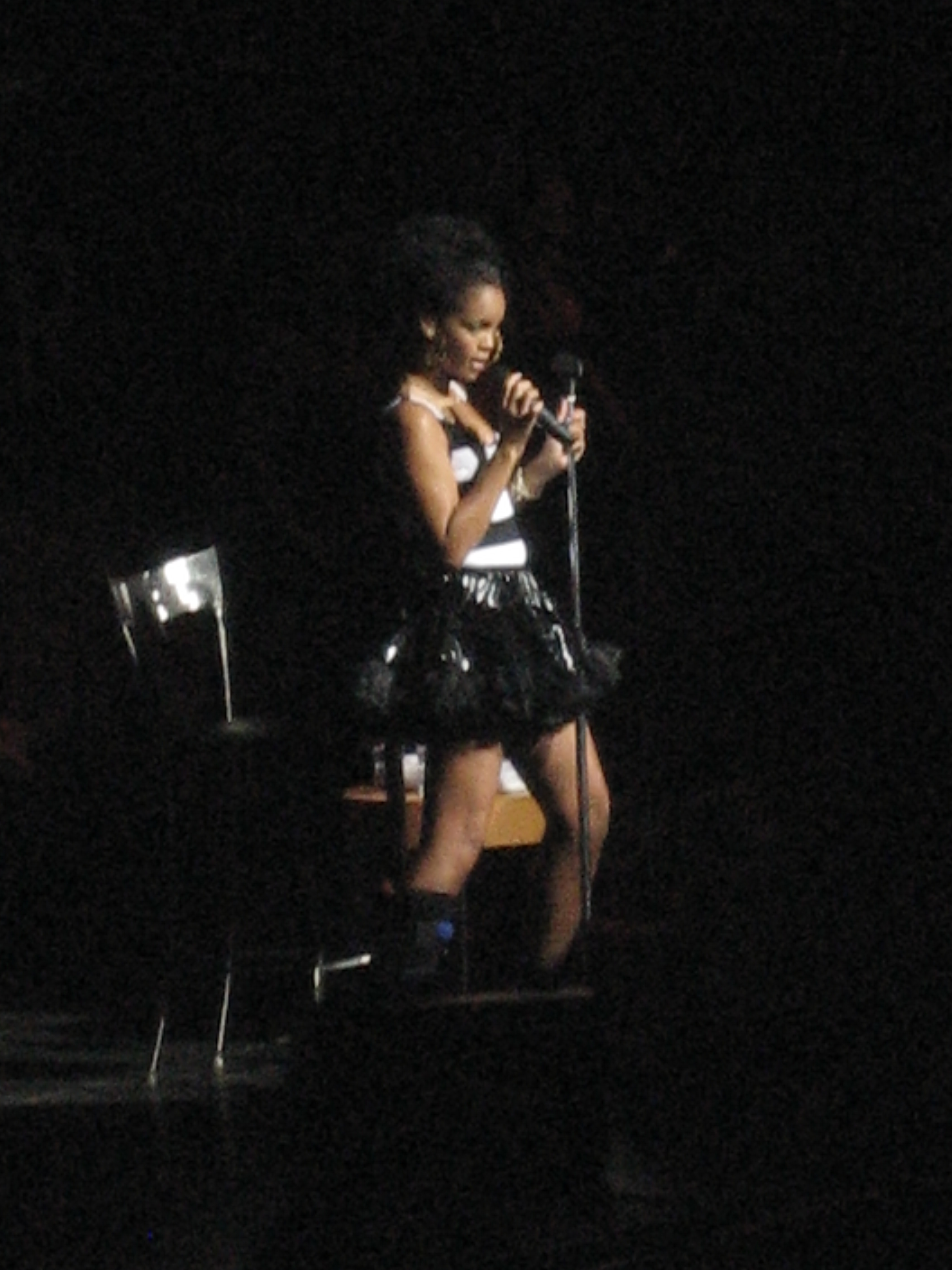 Rihanna live